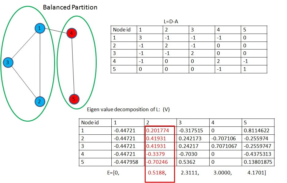 Fully connected graph with 2 separable components.